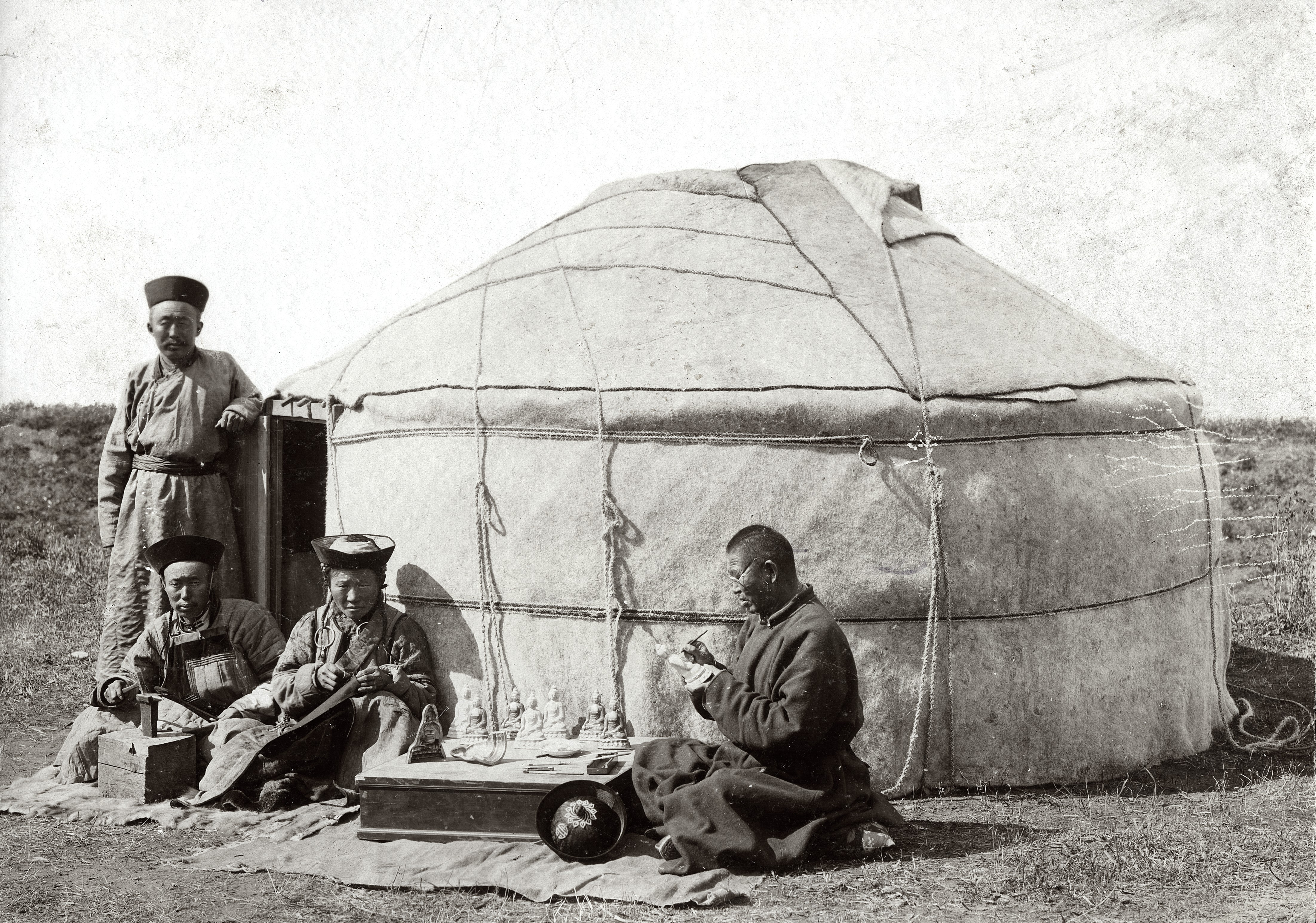 Buriats-painters, coloring "burkhan" figures